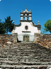 Veiga de Lila church